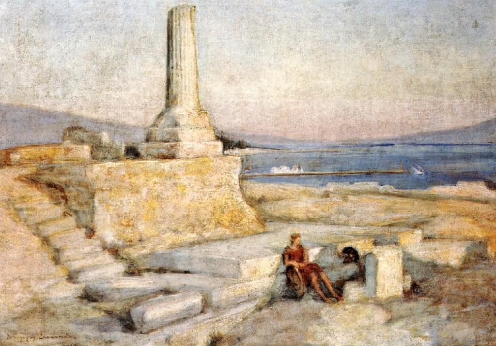 Among ancient monuments, before 1920.